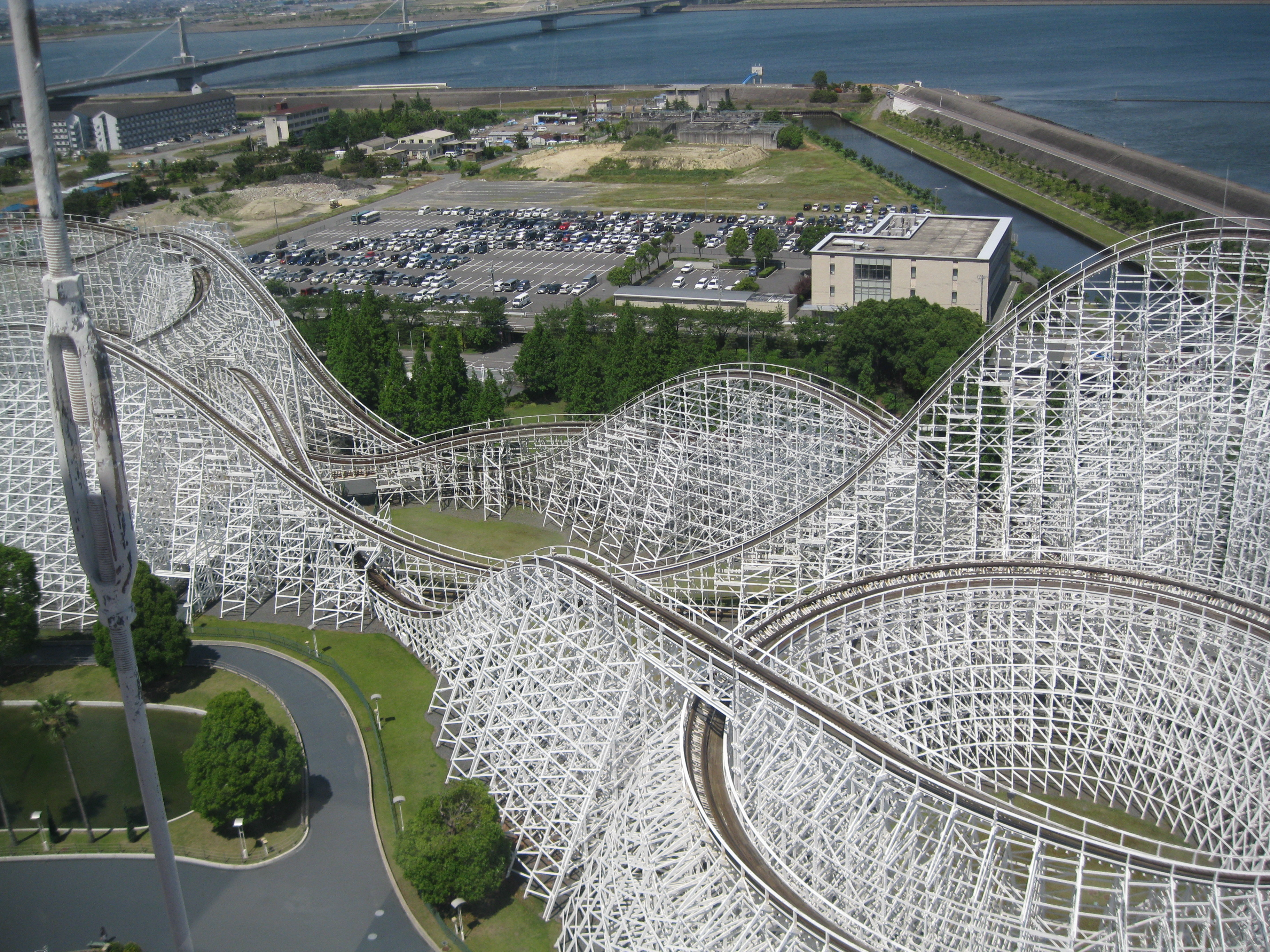 Nagashima Spa Land 03